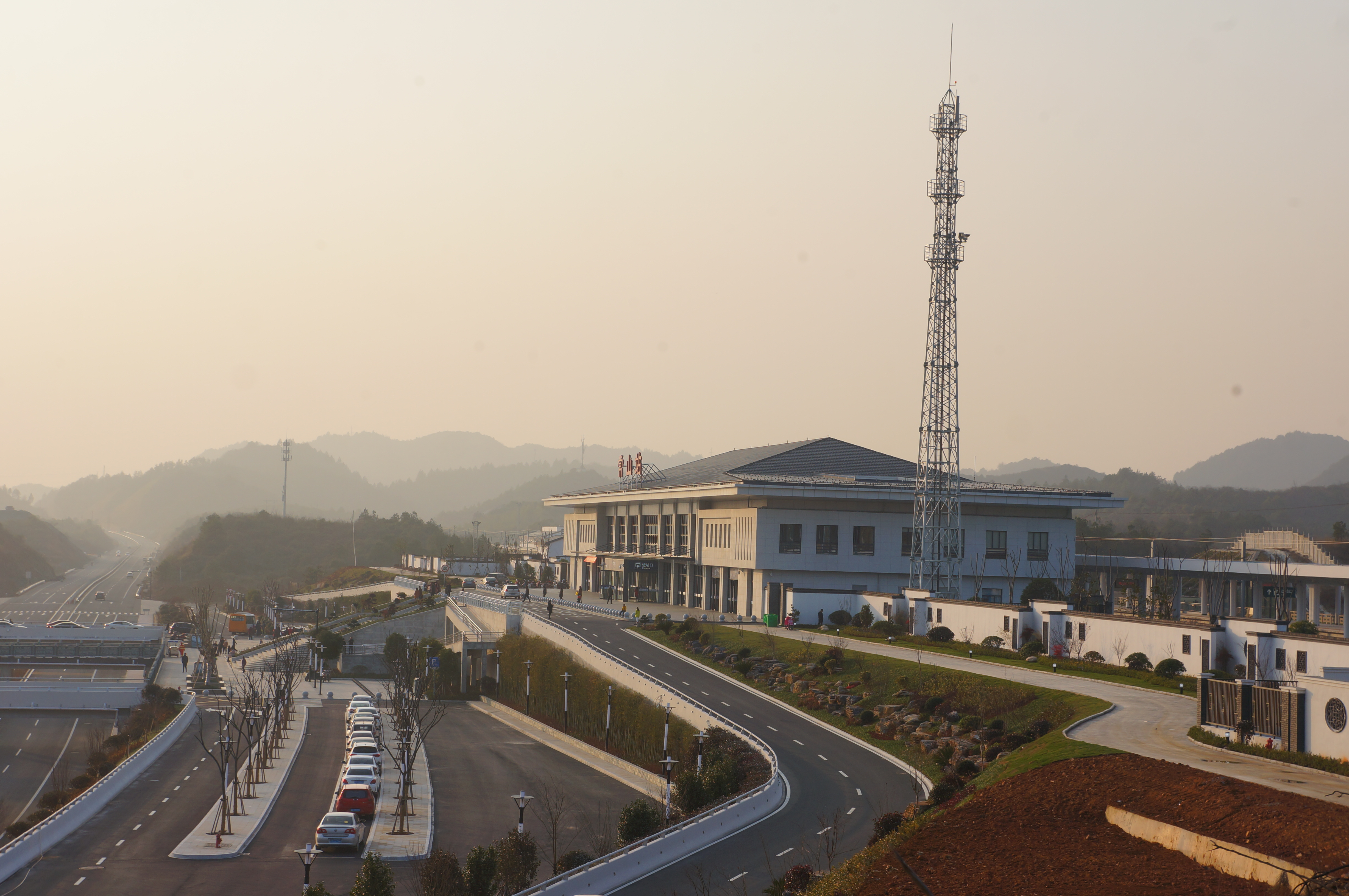 201712 Station building of Changshan Station from a Hill